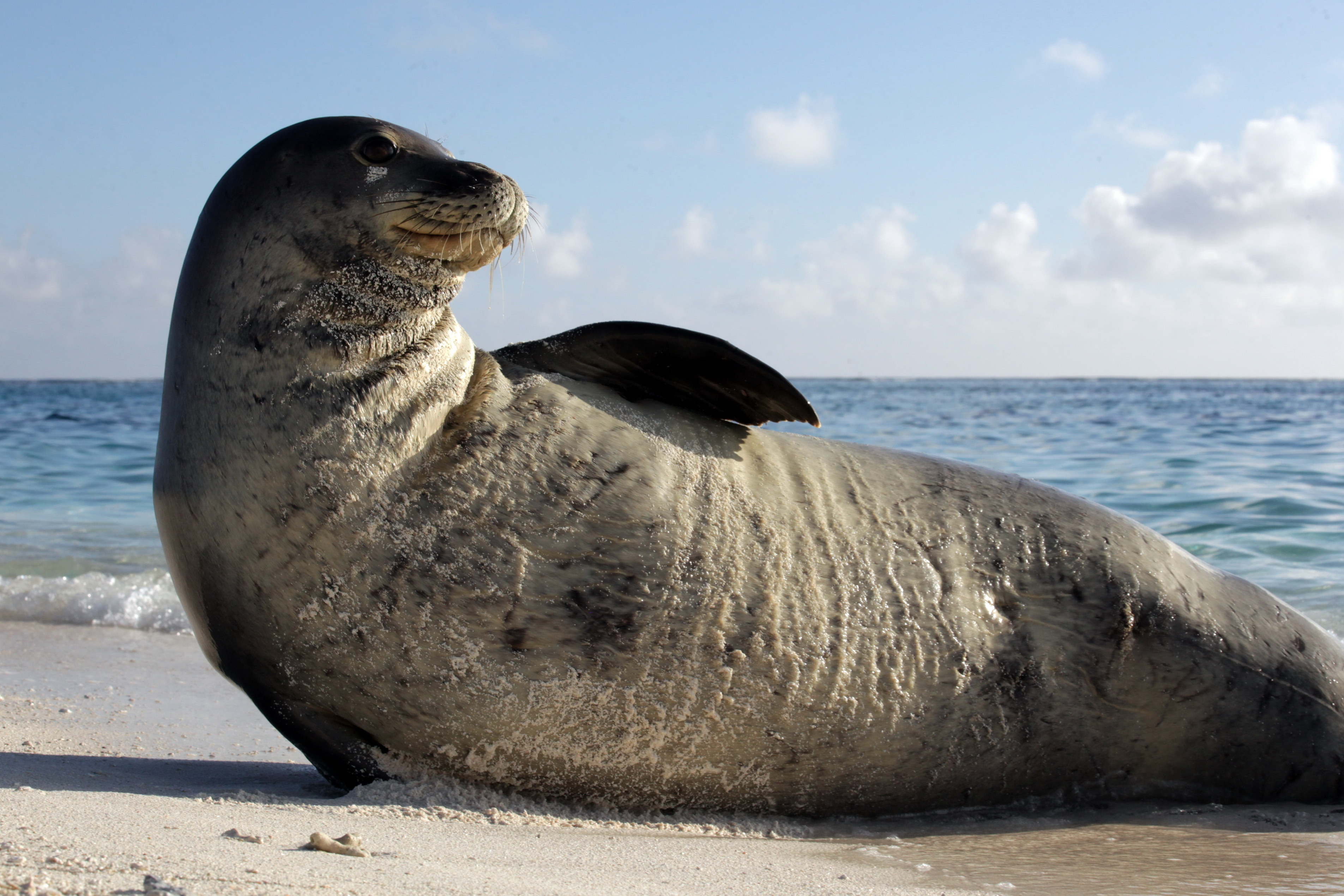 Monk seal on the beach. Image ID: anim2601, NOAA's Ark Collection Location: Hawaii, French Frigate Shoals Credit: NOAA/PIFSC/HMSRP